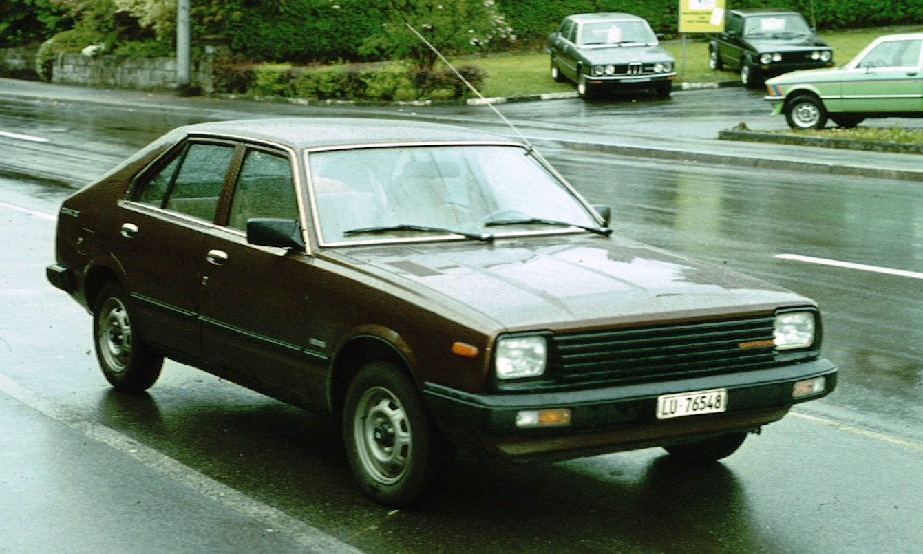 Datsun Cherry (European Nomenclature of the time) 4 door in Luzern in rain